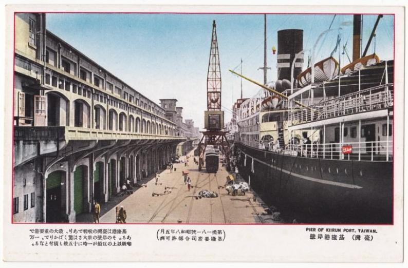 photo on postcard of Keelung Harbor